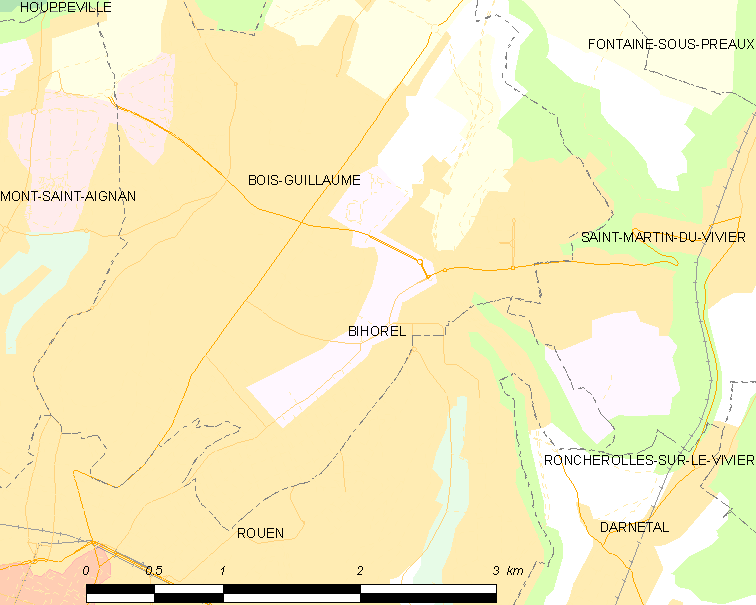 Map of French municipality Bihorel